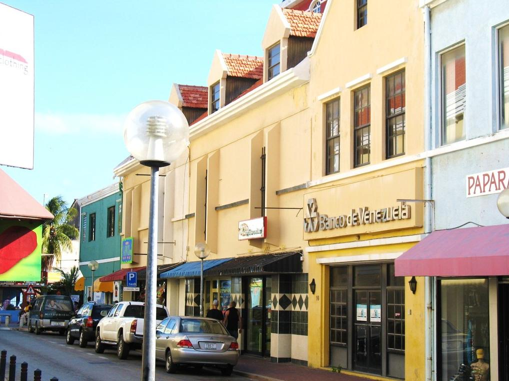 Banco de Venezuela, Willemstad, Curacao.